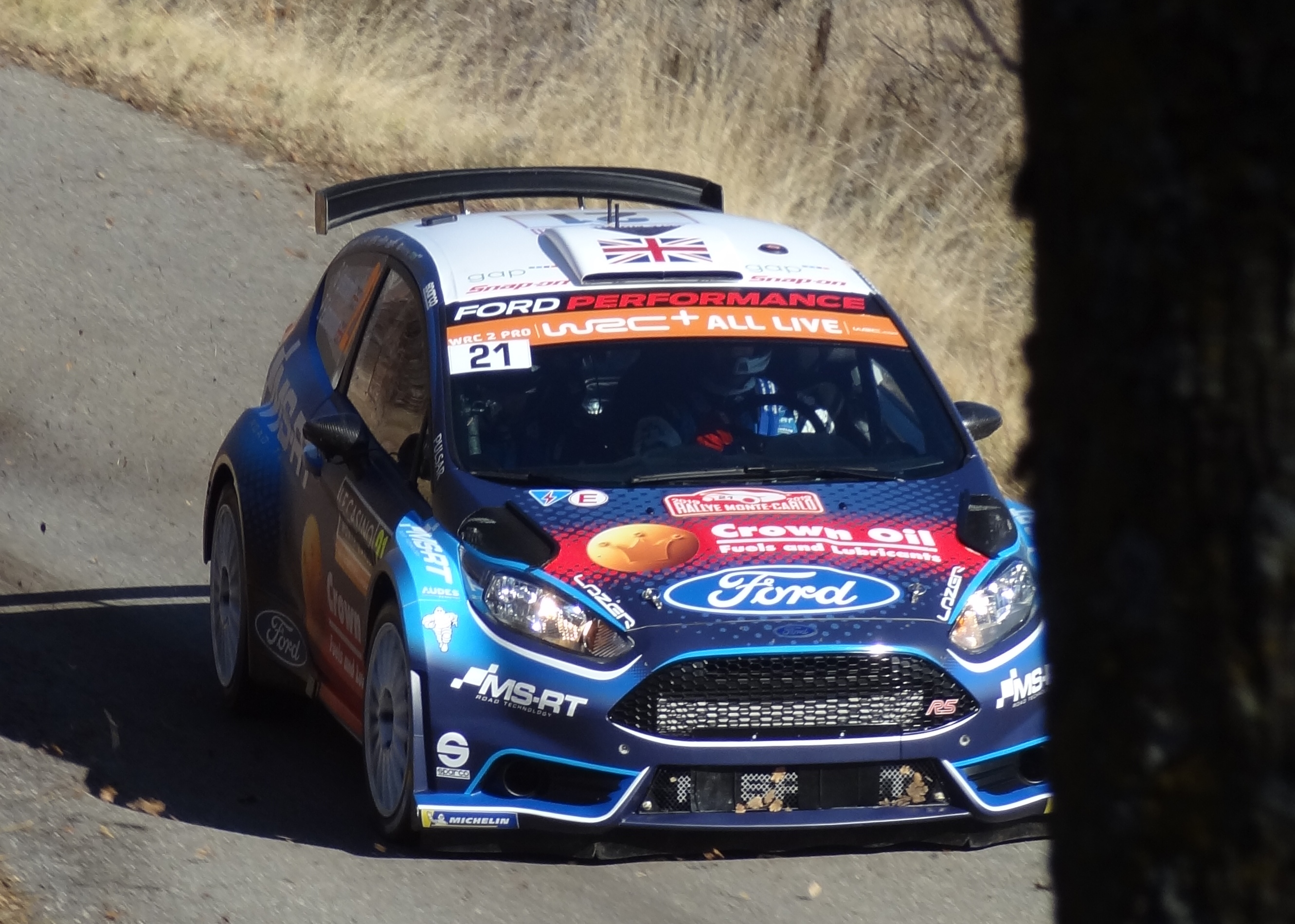 Ford Fiesta R5 de Gus Greensmith au Rallye Monte-Carlo 2019.